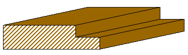 A woodworking joint known as a rebate (or rabbet). Source Image created by silentC for use in Wikipedia articles